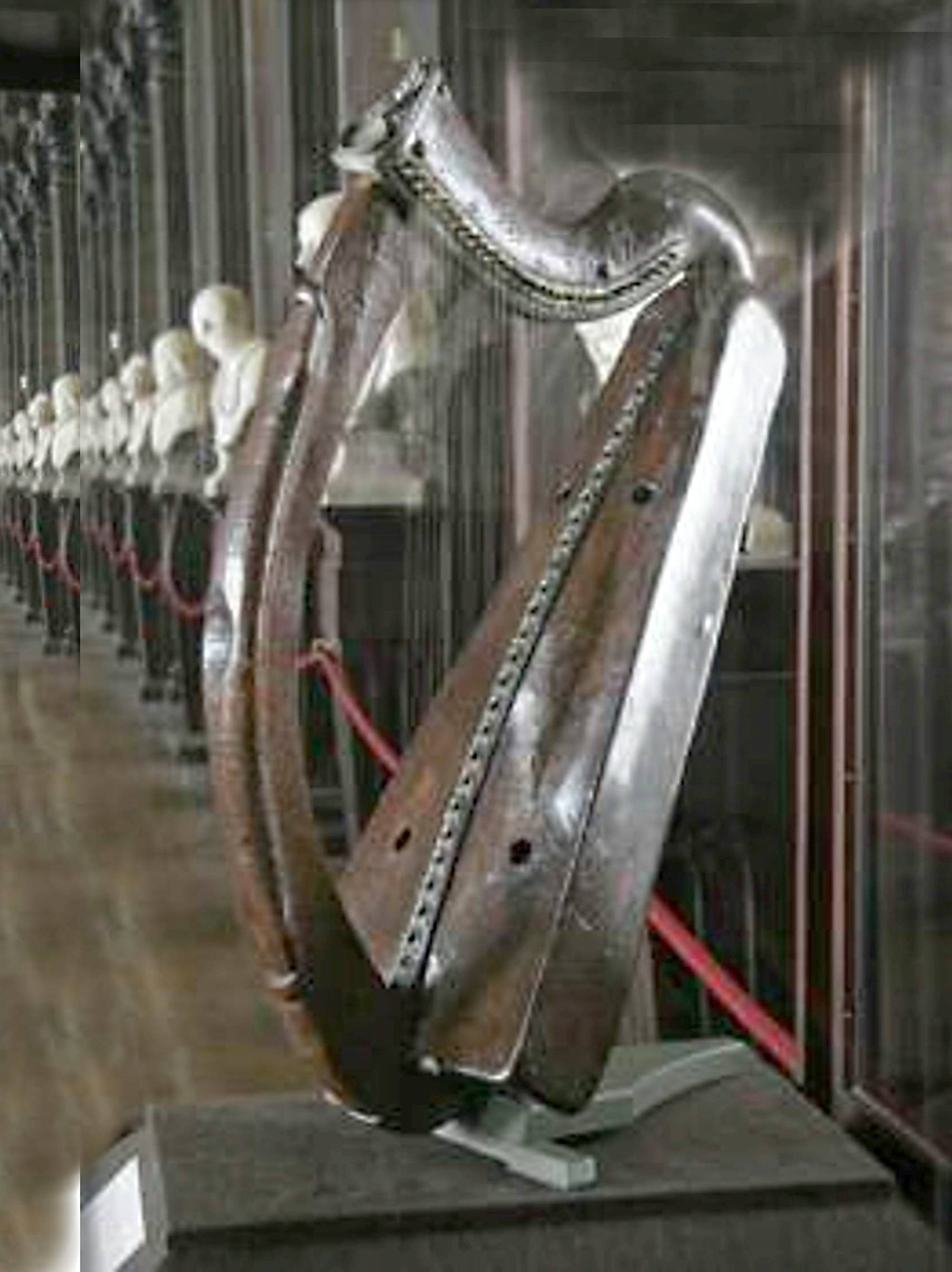 Trinity College Harp, Dublin, Ireland